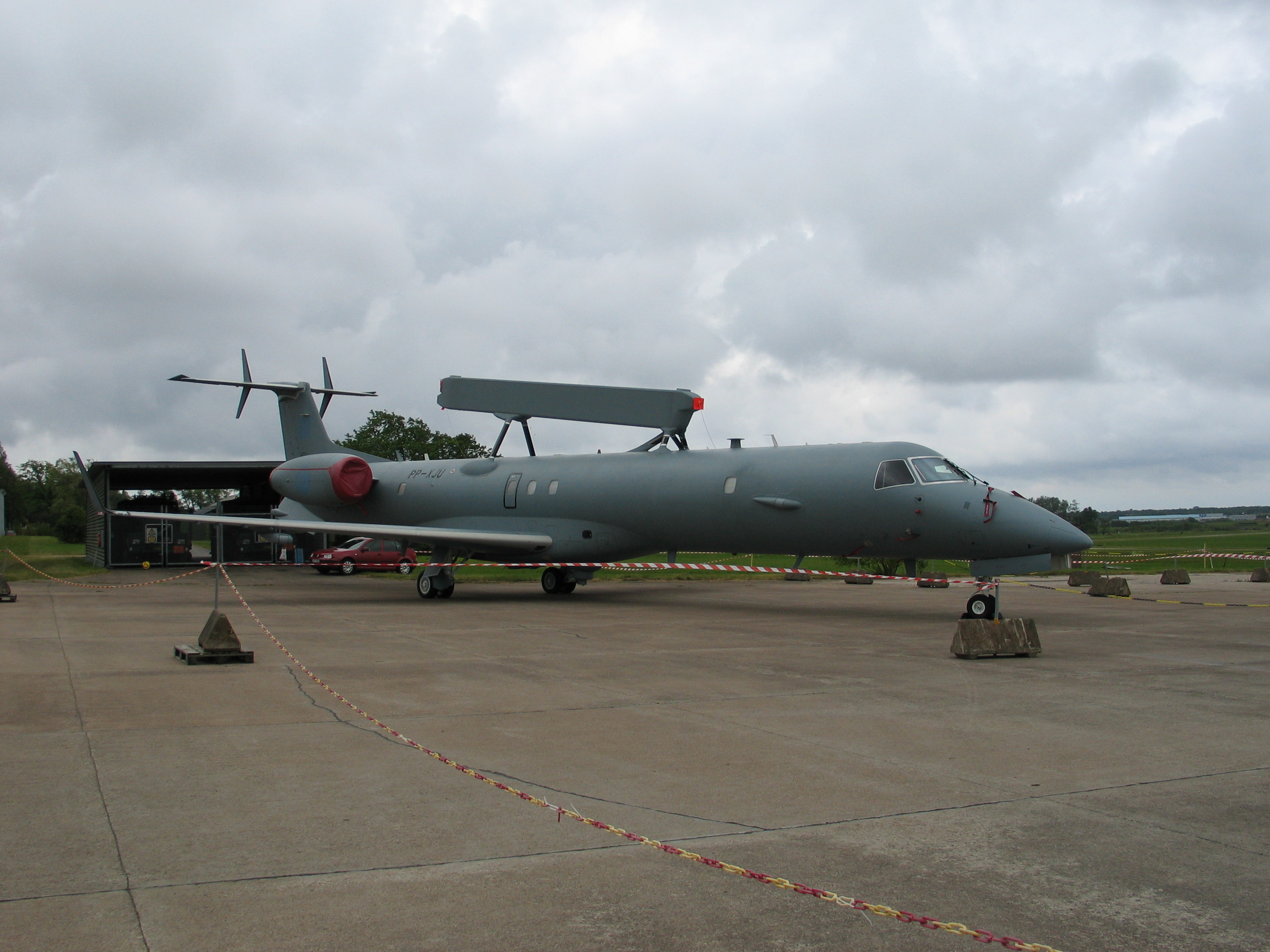 Embraer R-99A with Erieye AEW, photographed during trials in Halmstad, Sweden, before delivery to Brazil